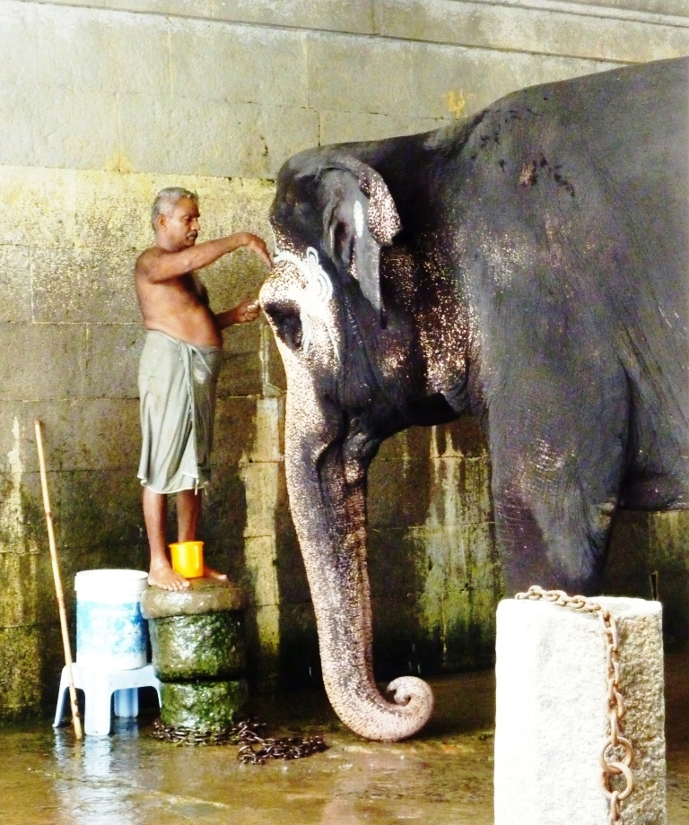 I took this photo in Kanchipuram, Tamil Nadu in 2010.